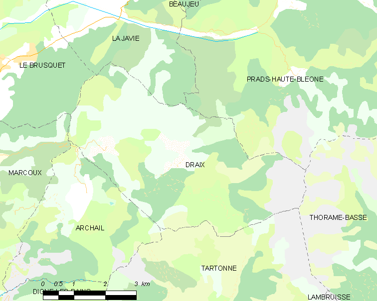 Map commune FR insee code 04072.png Légende